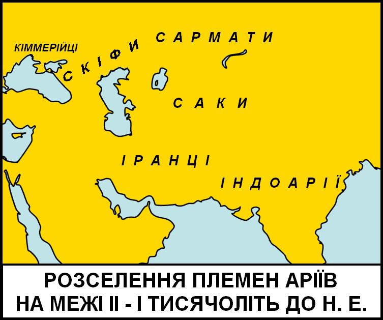 Indo-Iranian (Aryan) Peoples' Expansion at Early Iron Age